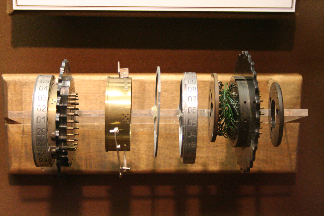 Enigma rotor detail on display at the National Cryptology Museum